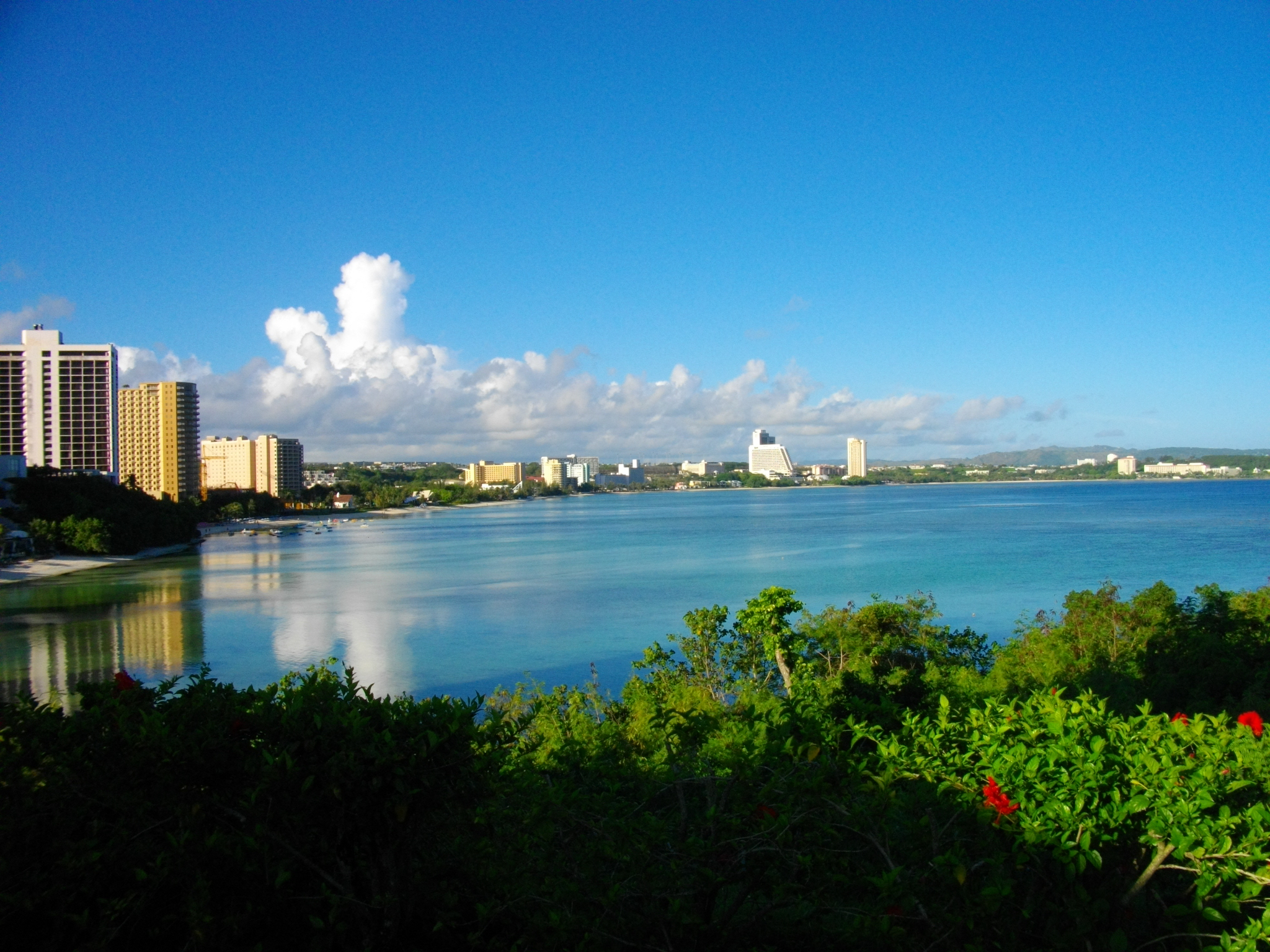 Tumon Bay